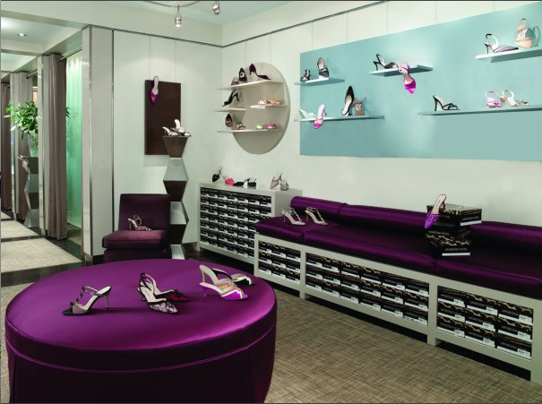 Architectural drawing of the middle room in the Vanessa Noel New York boutique designed by Vanessa Noel.